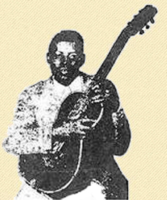 One of the few / only photo in existence of the swing blues guitarist Casey Bill Weldon.